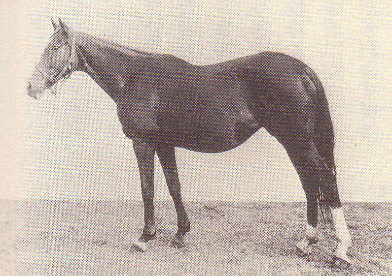 bloodmare Hoshitomo